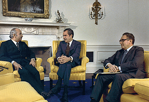 Meeting in the Oval Office between Richard Nixon, Henry Kissinger, and Egyptian Foreign Minister Ismail Fahmi